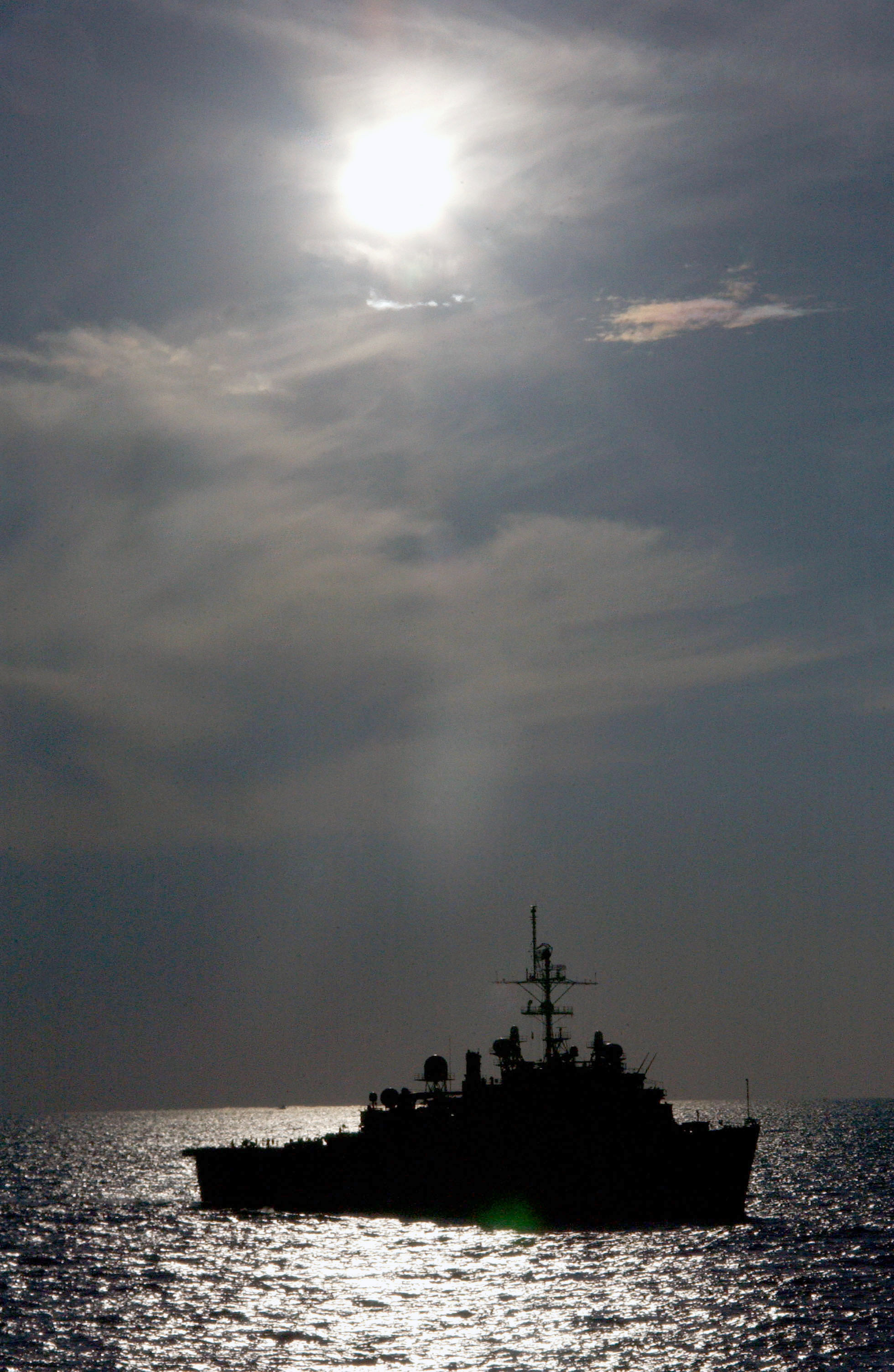 The Mediterranean Sea (Mar. 28, 2003) -- The Amphibious Command Ship USS LaSalle (AGF 3) for Commander Sixth Fleet steams through the Mediterranean during her deployment in support of Operation Iraqi Freedom. Operation Iraqi Freedom is the multi-national coalition effort to liberate the Iraqi people, eliminate Iraq's weapons of mass destruction, and end the regime of Saddam Hussein. U.S. Navy photo by Photographer's Mate 1st Class Michael W. Pendergrass. (RELEASED)